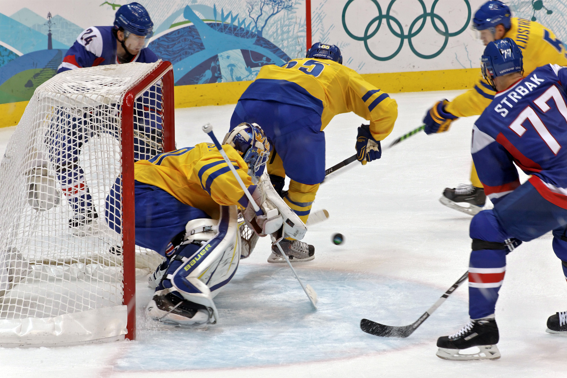 Zigmund Palffy of Slovakia attempts to put the puck out front for teammate Martin Strbak.